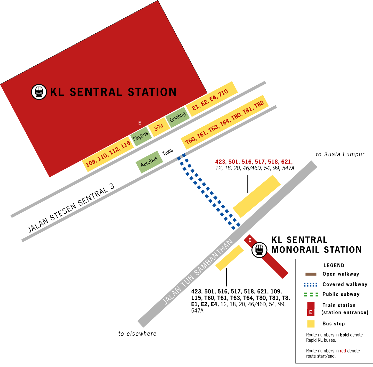 painkille